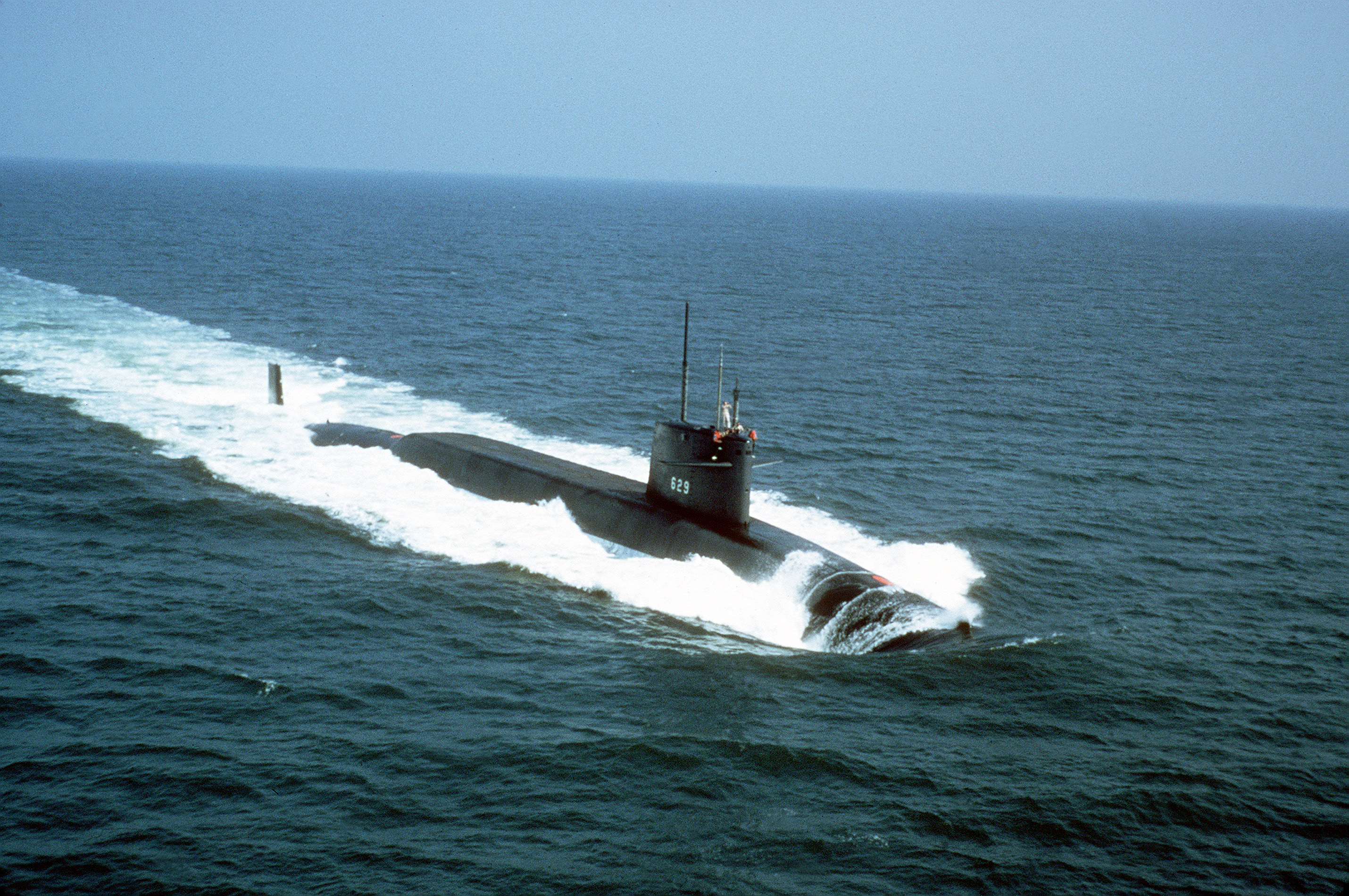 A starboard bow view of the nuclear-powered strategic missile submarine USS DANIEL BOONE (SSBN-629) underway. Location: HAMPTON ROADS, VIRGINIA (VA) UNITED STATES OF AMERICA (USA)